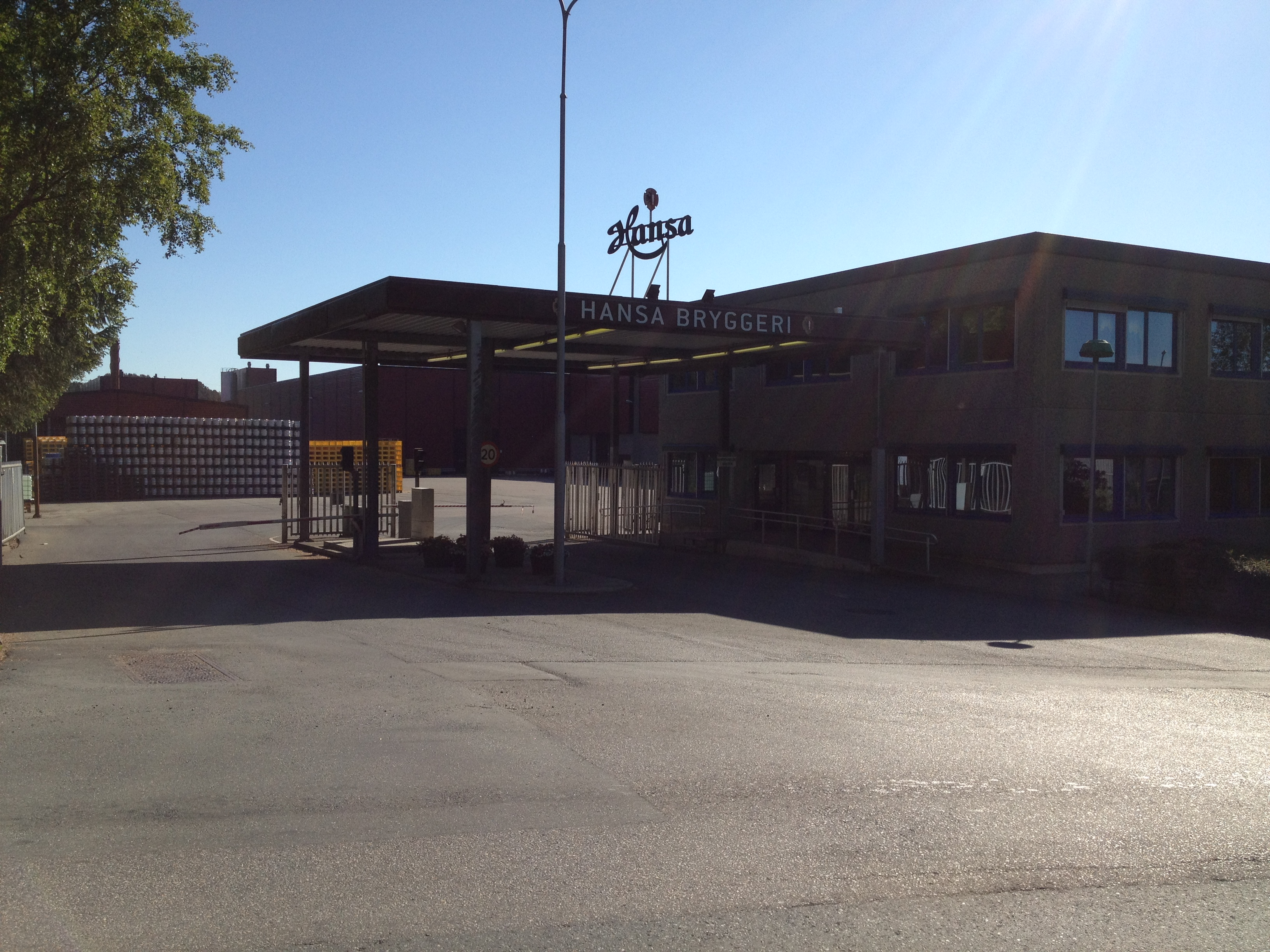 Hansa Brewery in Bergen, Norway